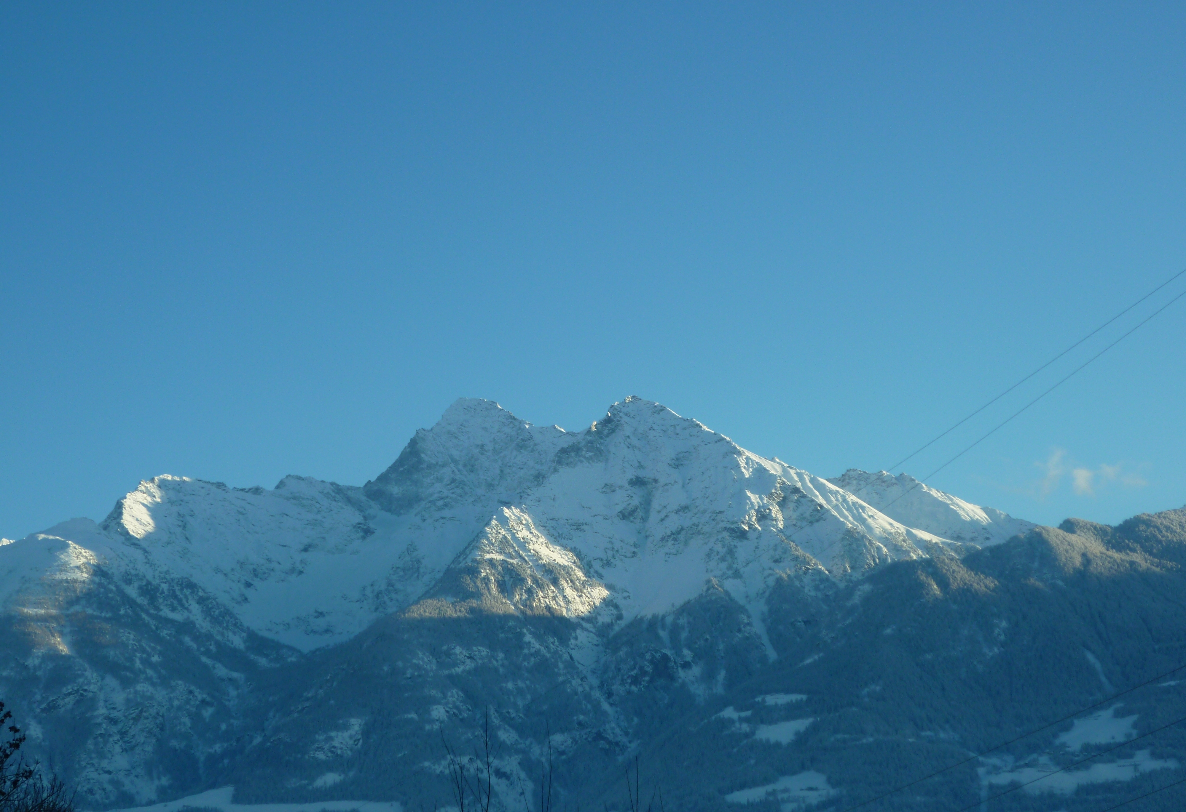 Pic de Nona in Aosta Valley (Italy)